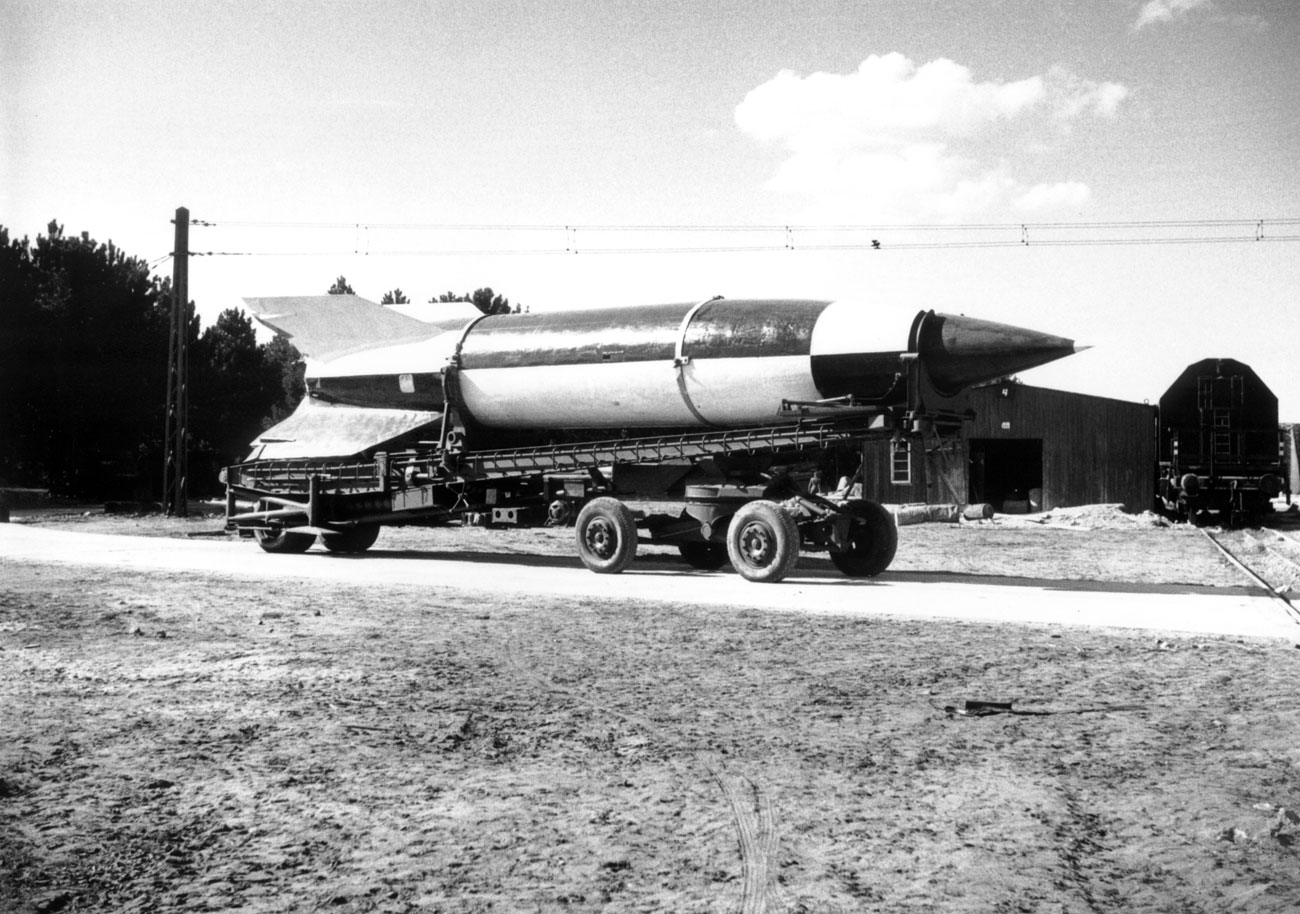 V-2 rocket on Meillerwagen at Operation Backfire near Cuxhaven in 1945 English Titles and Captions in Published Books After the warhead was attached, the missile was transferred from the Vidalwagen to the Meilerwagen ('S.I. Negative #76-2755)[1] The Meiller trailer brings it to the firing position and erects it[2]